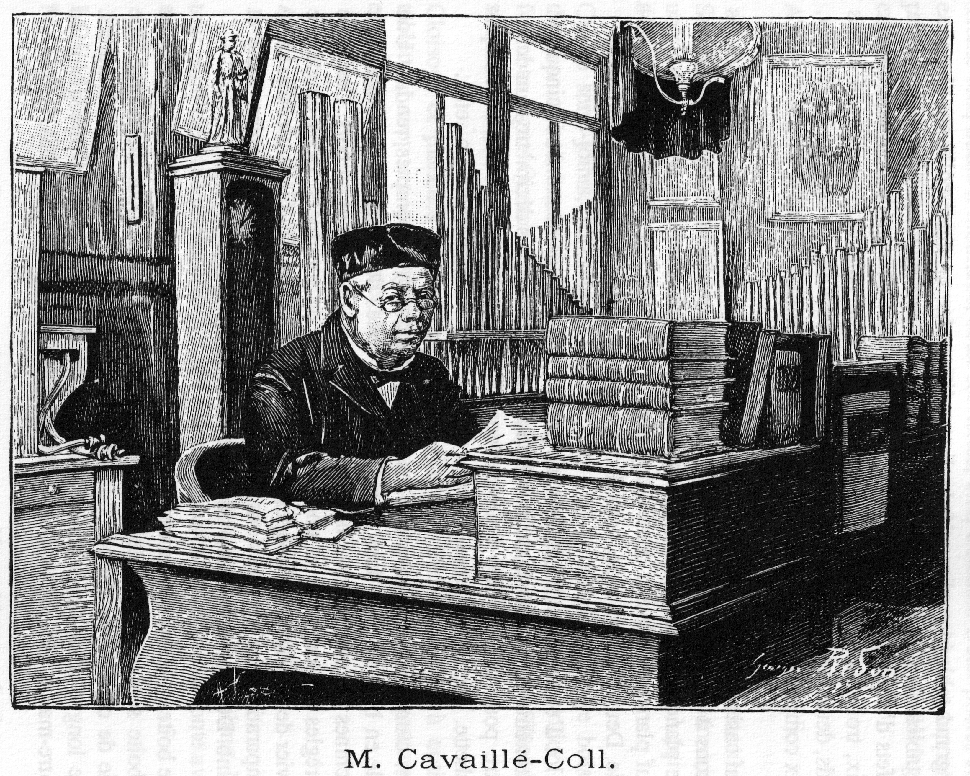 Aristide Cavaillé-Coll, sitting at his desk. L'illustration n° 2672, may 12, 1894